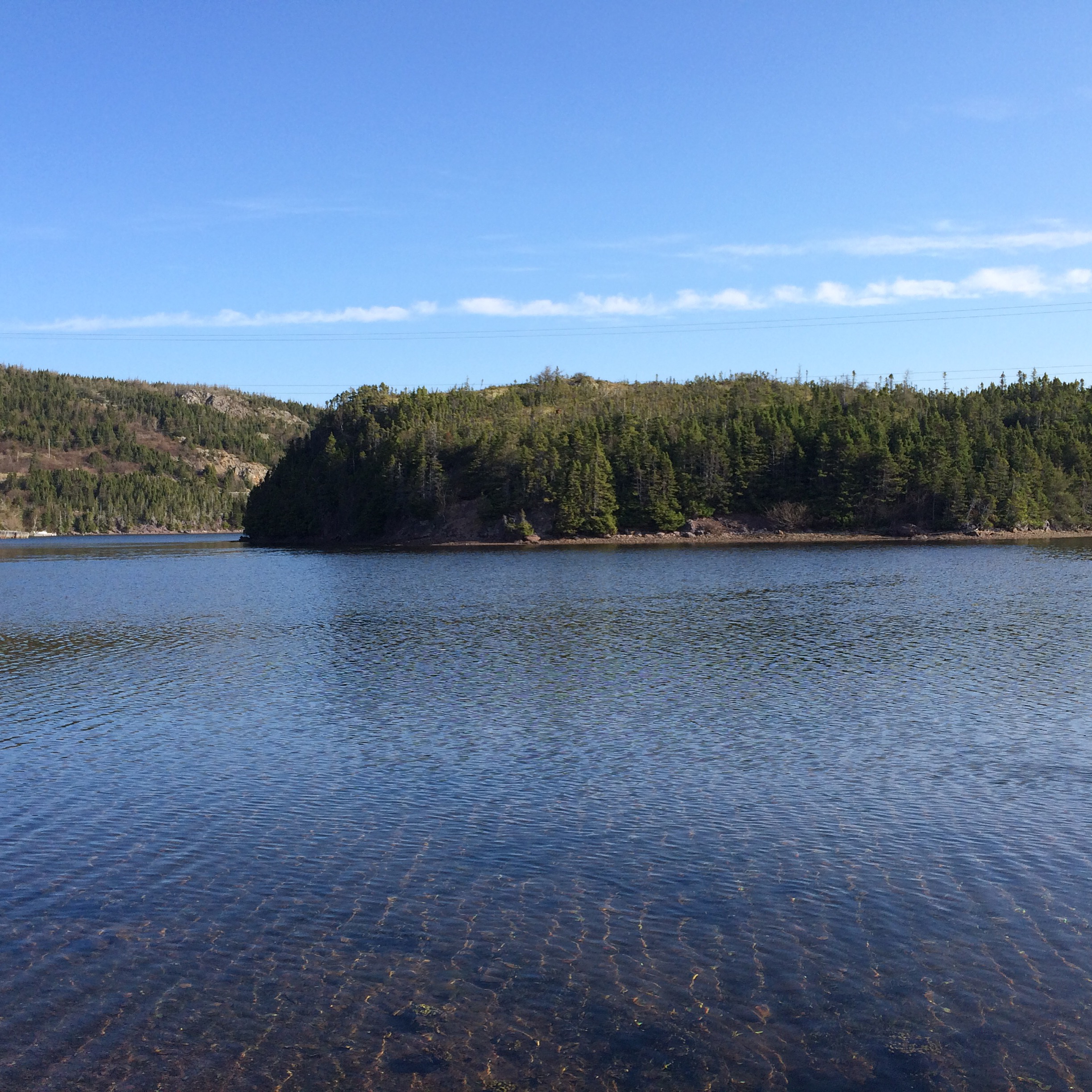 A Nice Day in Heart's Ease Pond